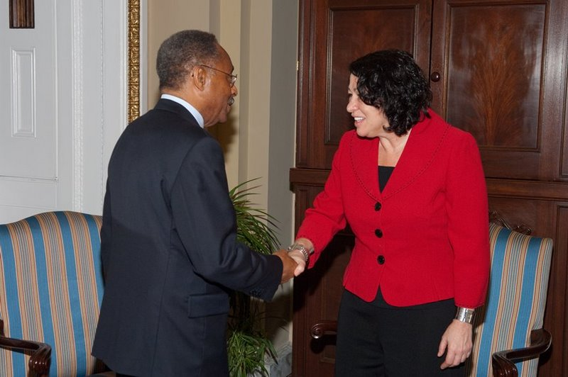 U.S. Senator Roland Burris (D-Illinois) meeting with Supreme Court Justice Sonia Sotomayor